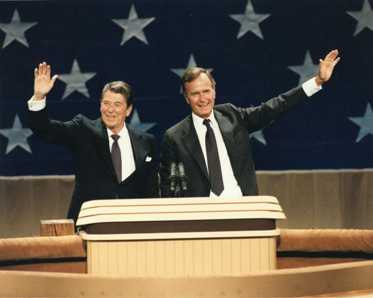 President Ronald Reagan and Vice President George Bush at the 1984 Republican National Convention in Dallas, Texas August 23, 1984.